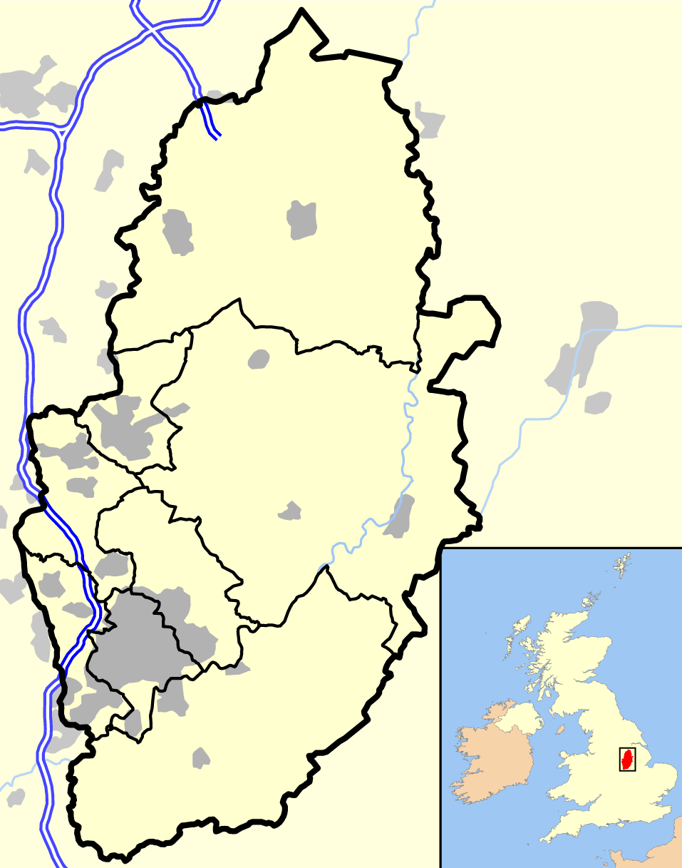 Nottinghamshire outline, showing motorways and urban areas. Derived from Open Street Map. UK outline is Image:Uk outline map.png, which is licenced under the GFDL. Other versions: Image:Nottinghamshire Nottingham.png Image:Nottinghamshire Mansfield.png Image:Nottinghamshire Newark.png